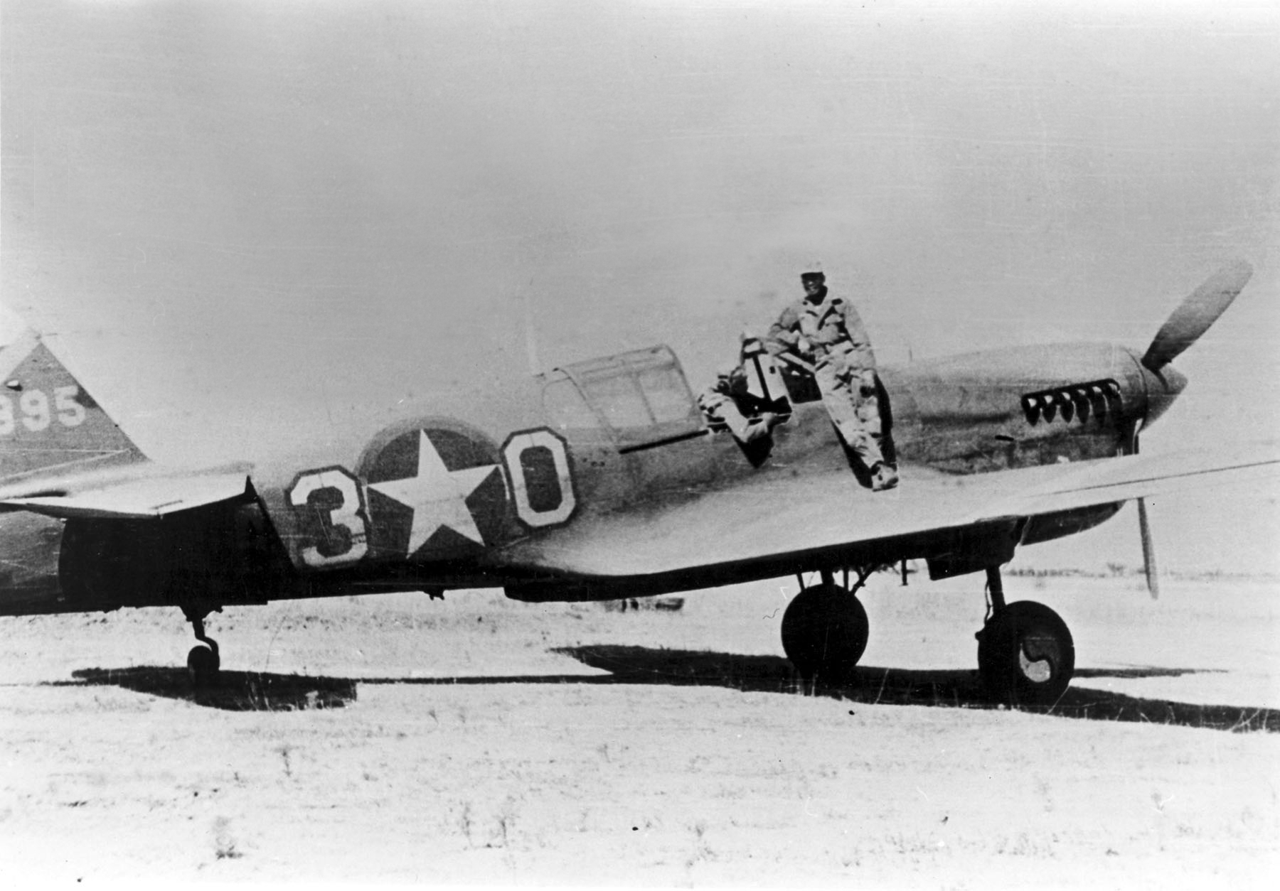 The U.S. Army Air Forces Curtiss P-40L Warhawk flown by 1st Lt. (later Maj.) Charles B. Hall of Brazil, Indiana (USA), 99th Fighter Squadron, 33rd Fighter Group, in North Africa. On Friday, 2 July 1943, Hall became the first USAAF pilot of African-Amcerican descent to shoot down an enemy plane, a German Focke-Wulf Fw 190.